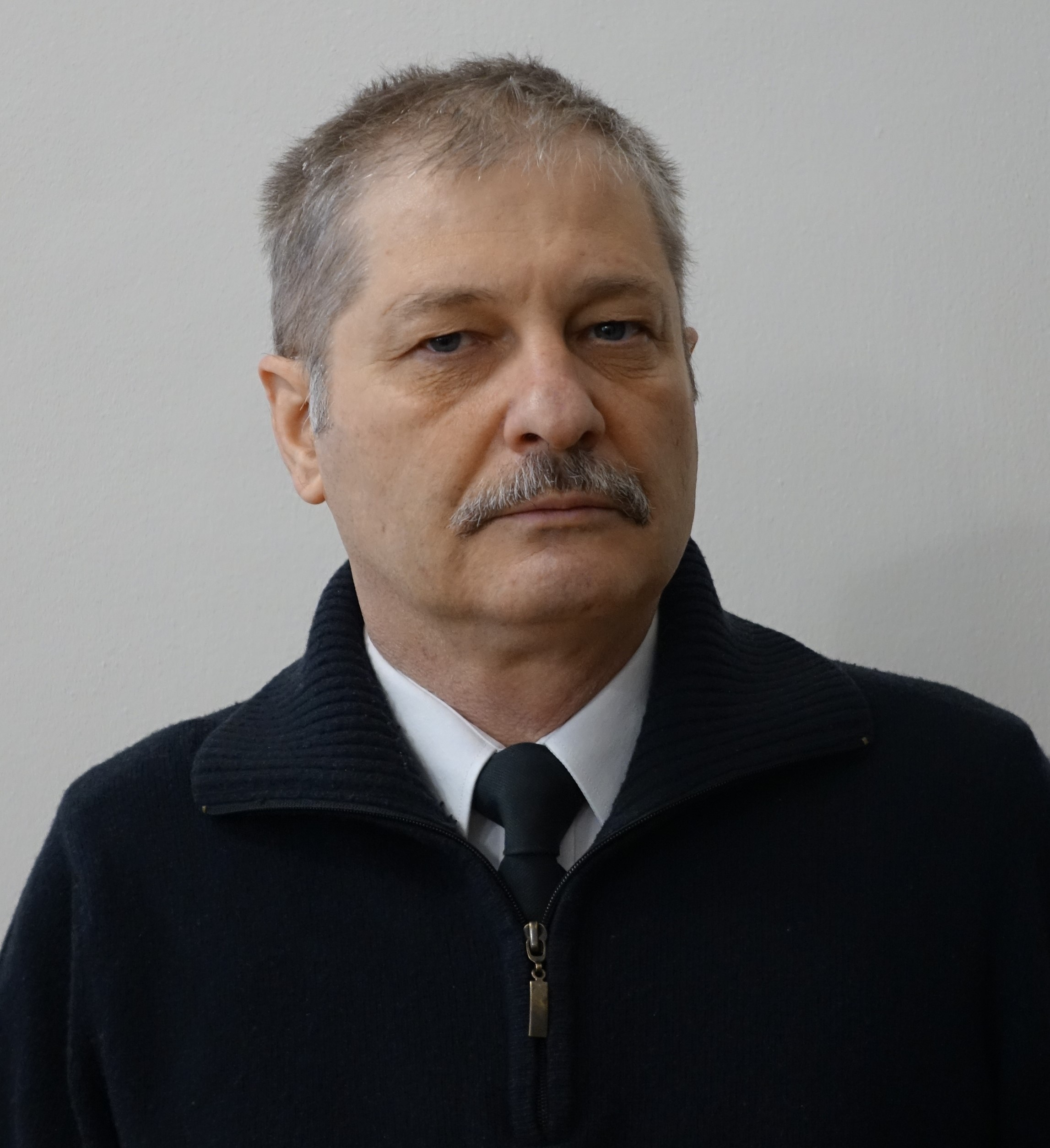 Asen Nikolov Kozhukharov